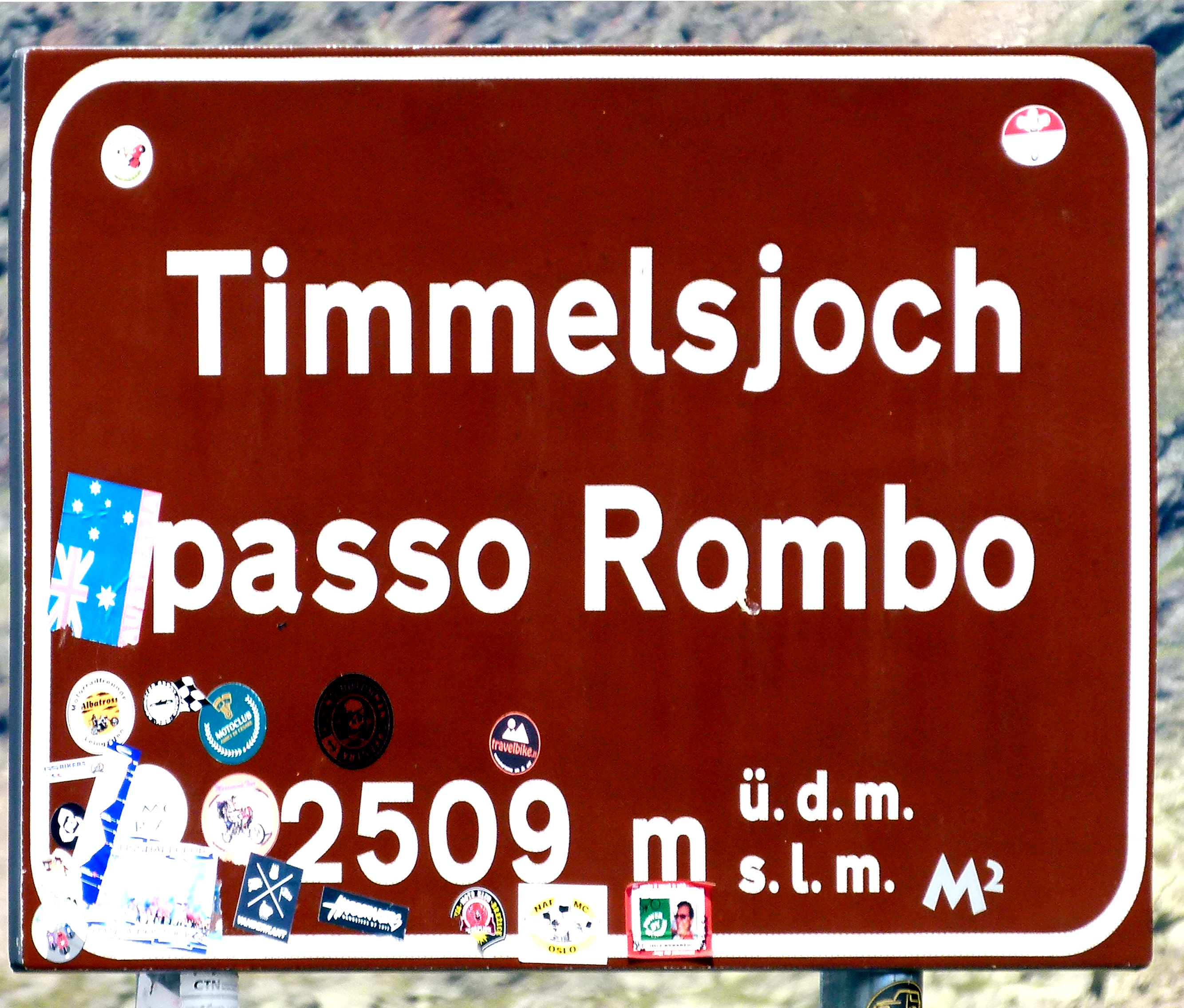 Timmelsjoch, Italy